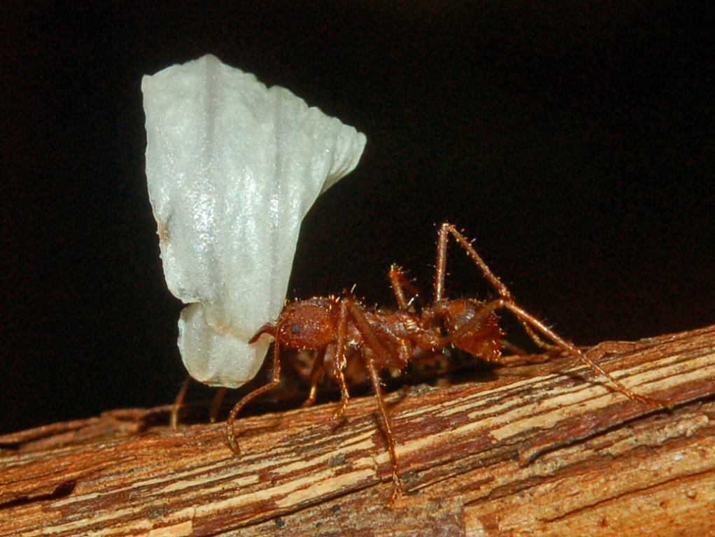 Atta mexicana at Montreal Insectarium